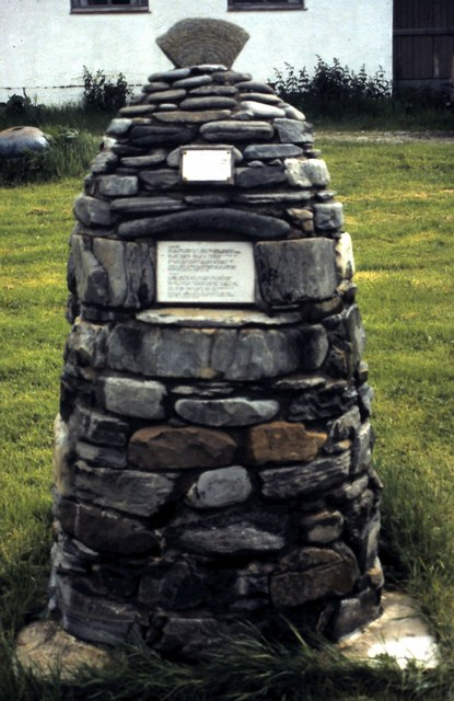 Memorial to the '7 Men of Knoydart' In 1948 servicemen returning from WWII staked out claims to land on the Knoydart Estate which they intended to farm. The highly unpopular landowner, Lord Brocket, who had been a personal friend of Hitler and had entertained the German Ambassador on the estate, took them to court and they were imprisoned. Hamish Henderson, author & folklorist, wrote a song highly scathing of Brocket, 'The 7 Men of Knoydart'.An allusion to the 7 men of Moidart who accompanied Bonnie Prince Charlie. There were actually 8. I was privileged to meet the last of the 'Men', Archie MacDougall & it was like chatting to a survivor of the '45. Sadly all left the estate and are now dead.